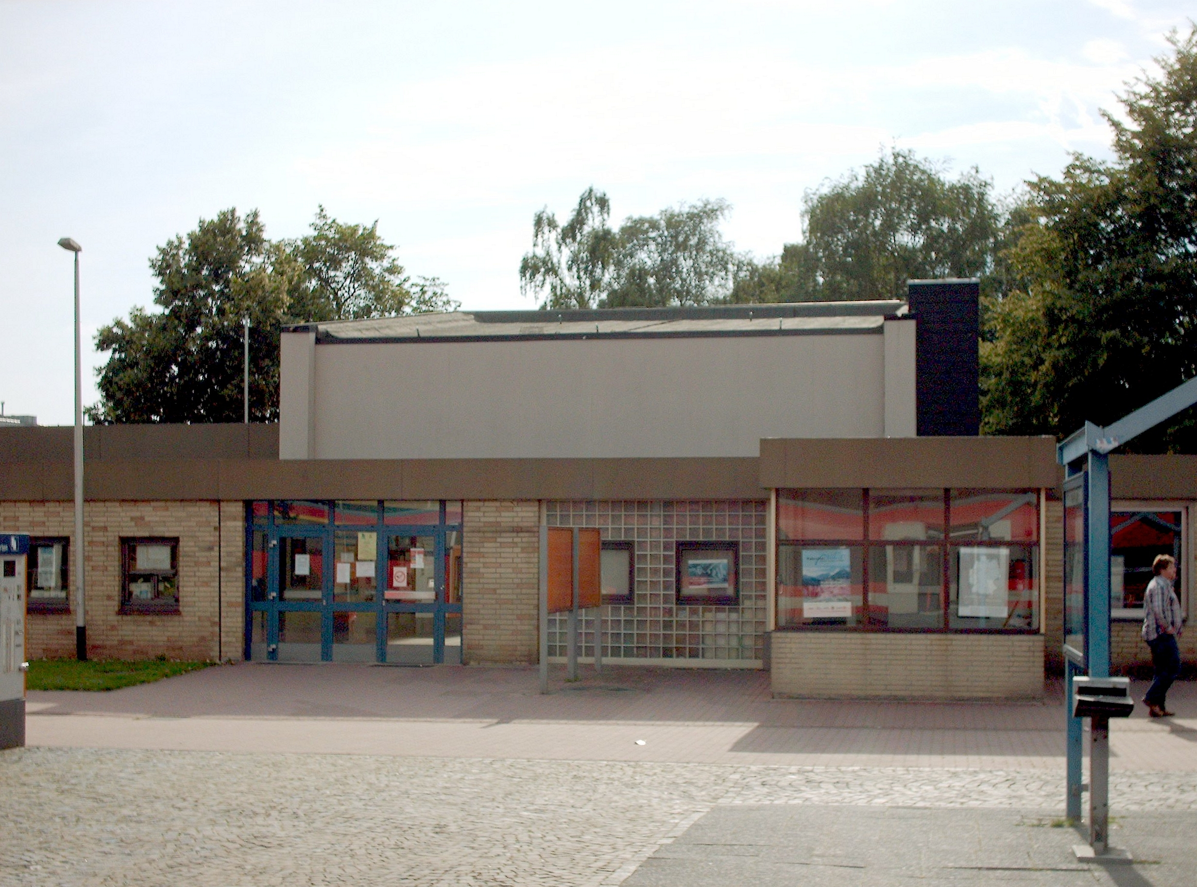 Goch station, Goch, Germany, track side check usage